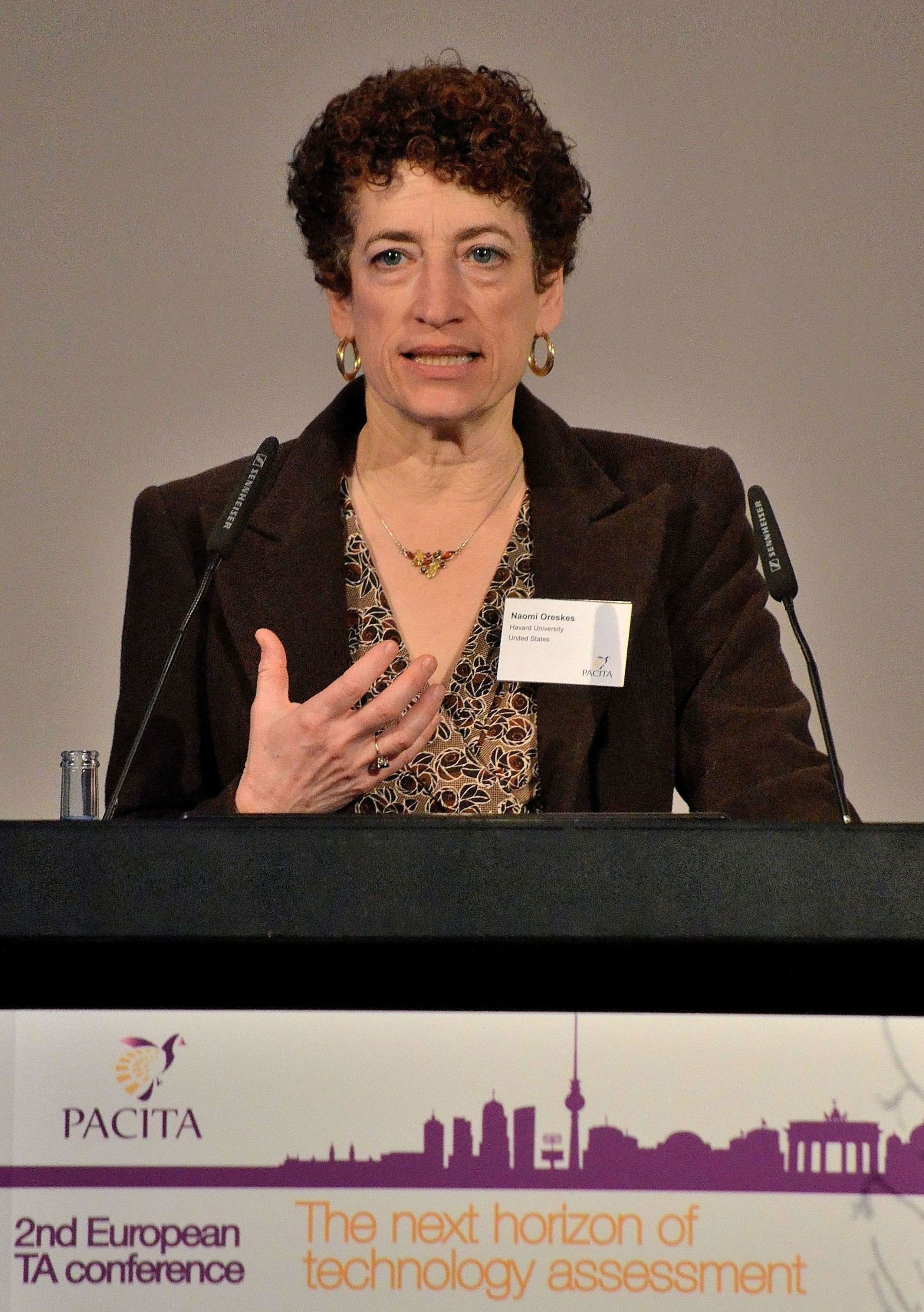 Professor Naomi Oreskes during 2nd European TA conference in Berlin